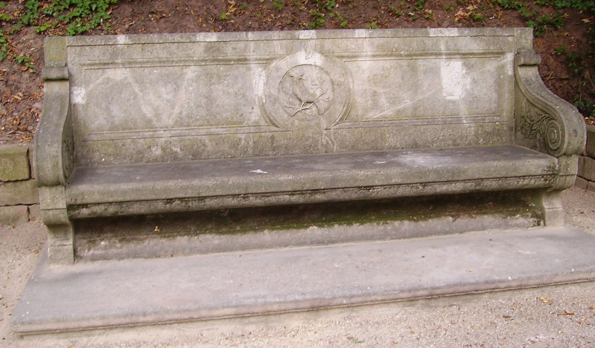 monument in the Heidelberg castle (Heidelberger Schloss)